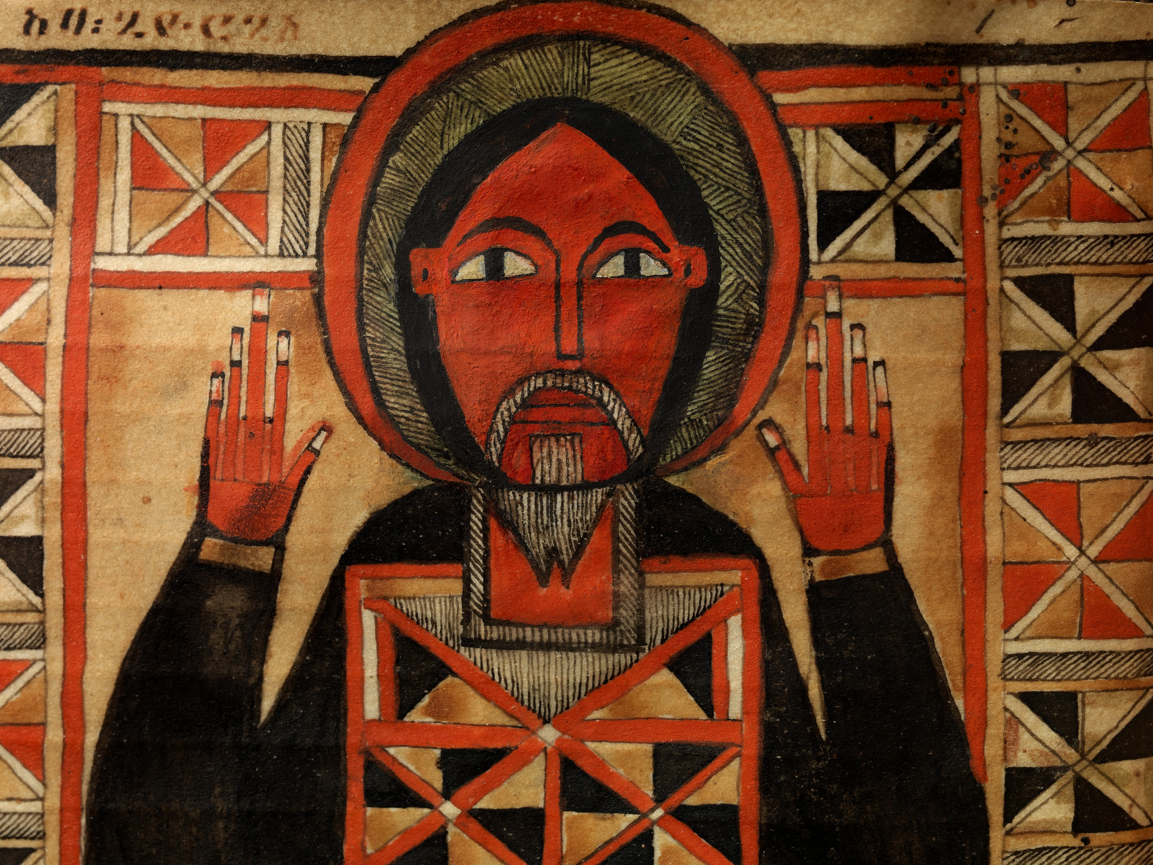 Amhara prayer book from Lasta region of Ethiopia